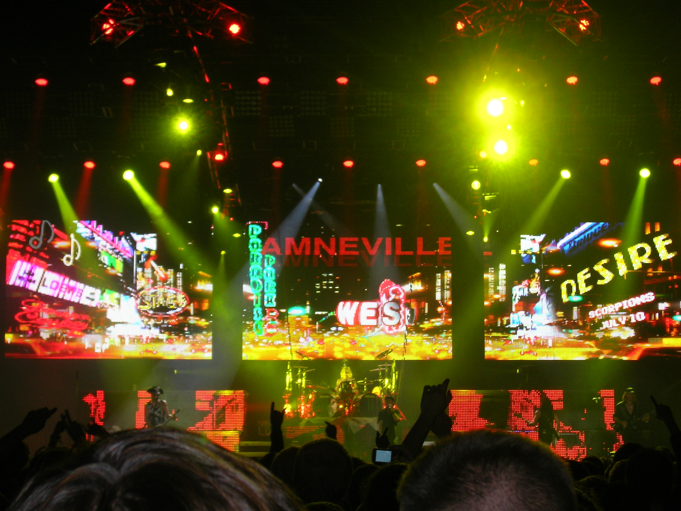 Scorpions band 2010-10-17 Amnéville